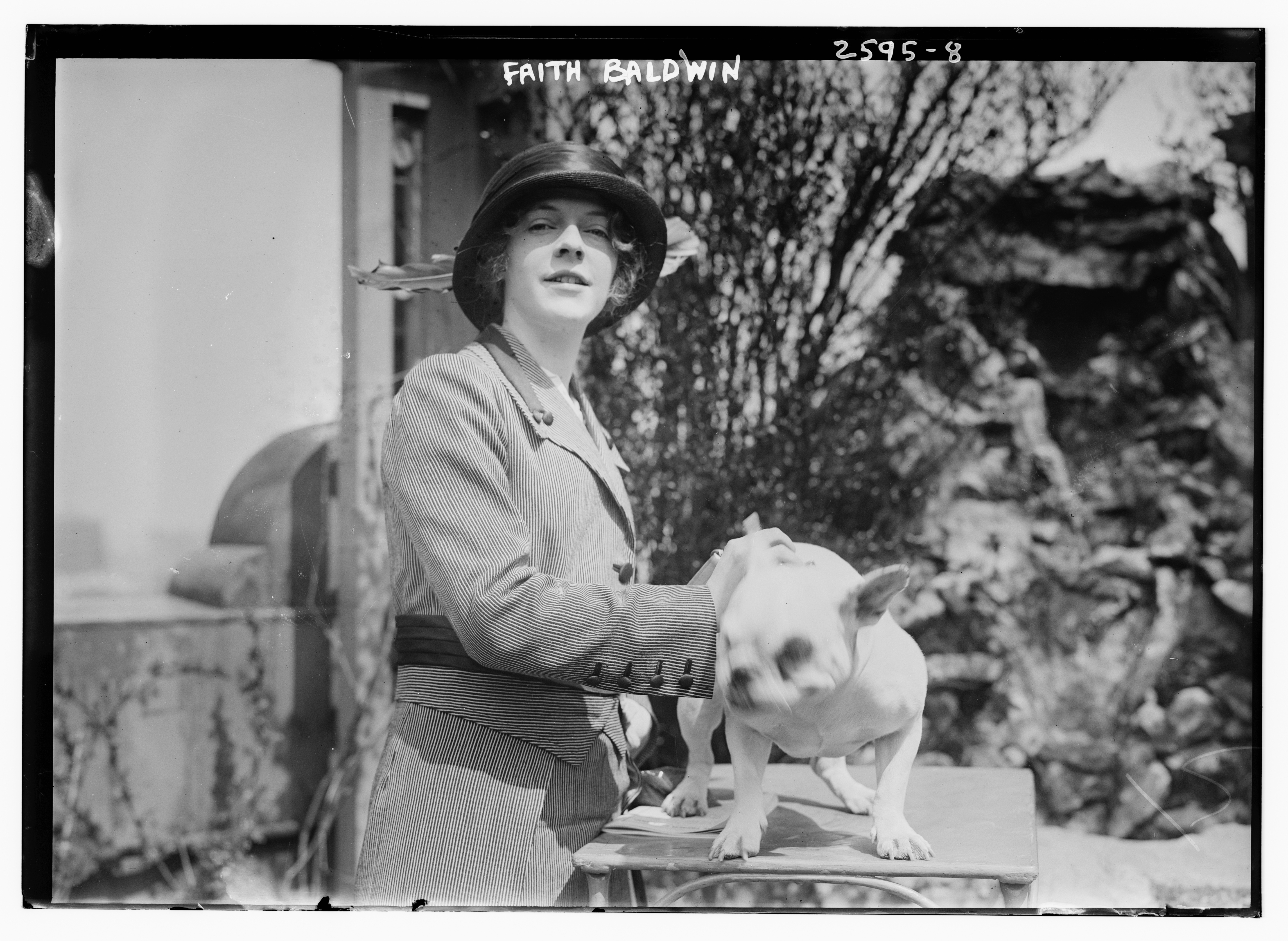 Faith Baldwin